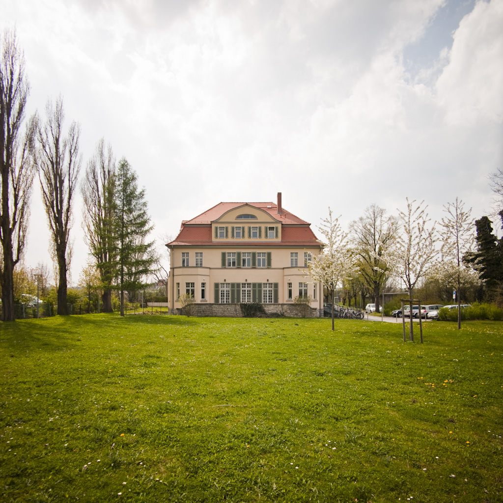 The mansion Villa Martin in Erfurt, Germany. It is the seat of the catholic-theologic faculty of the University of Erfurt.